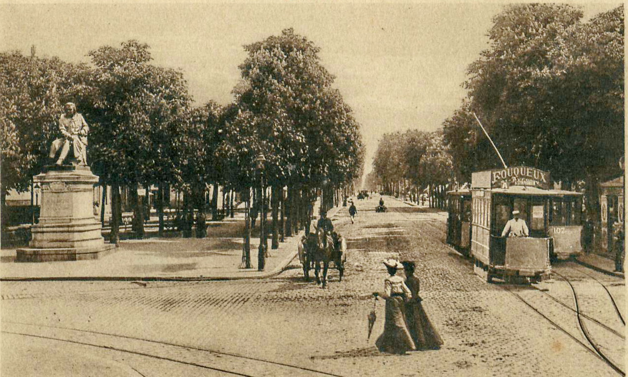 Electric Tram in Tours (France), Avenue-Grammont - vintage postcard published by "LL" in 1912